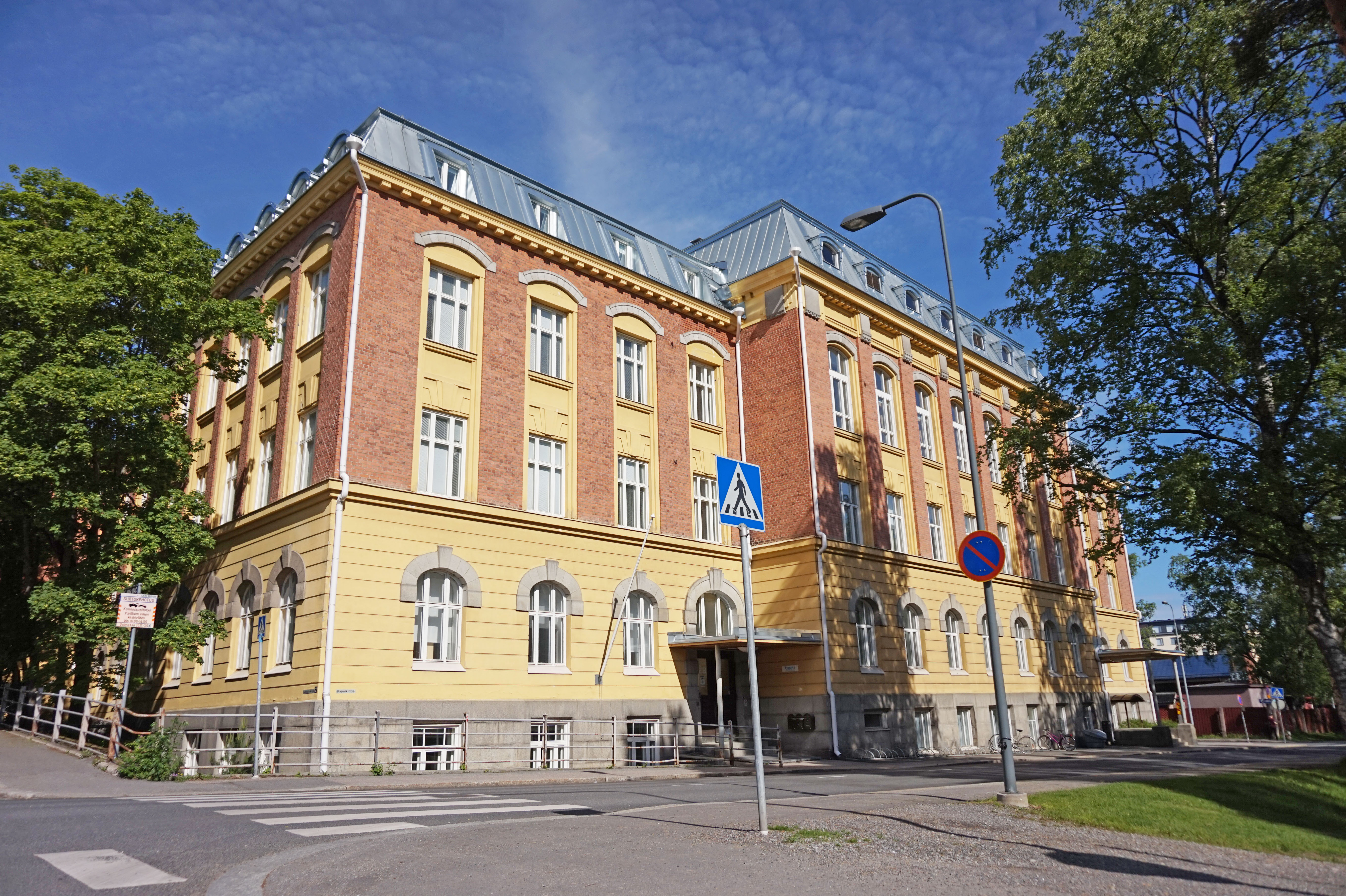 Pyynikintie 2 in Tampere, Finland.This photograph was taken with a Sony ILCE-5000